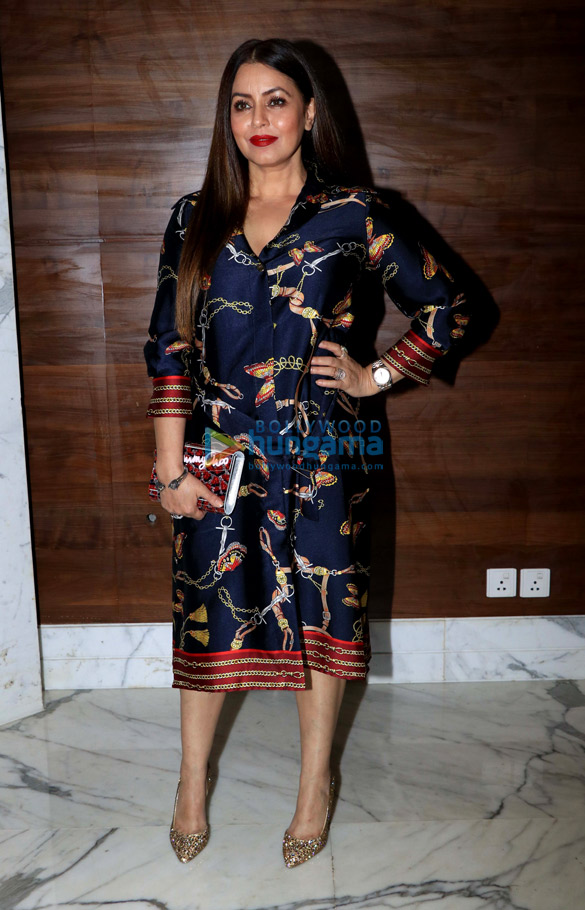 Mahima in 2018